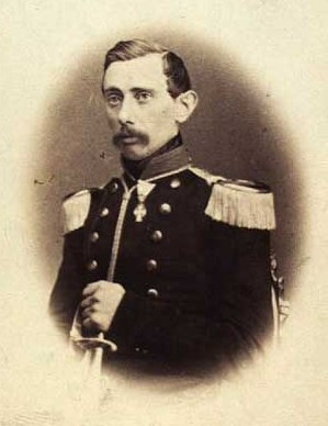 Carl Friederich Wilhelm Heinrich Baland (1822-1864), Danish army officer